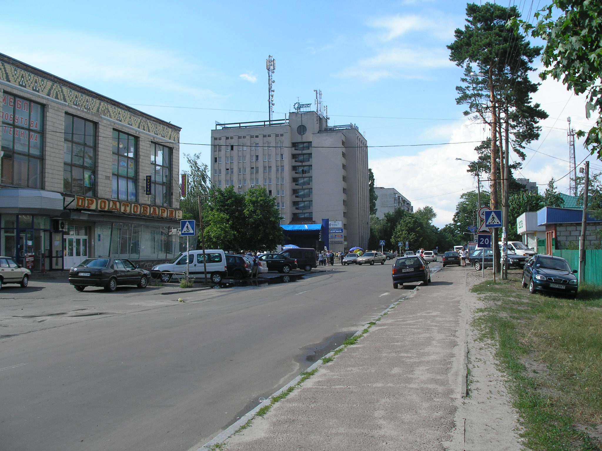 View of the city center in Irpin, Ukraine.